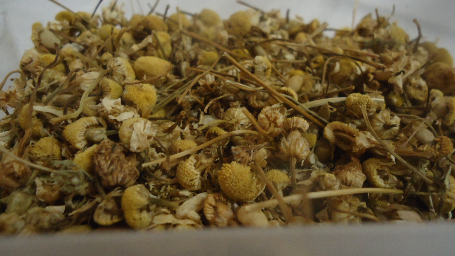 Dry matricaria chamomilla as used to make tea.